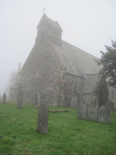 Church in the mist Llanfihangel-yng-Ngwynfa church